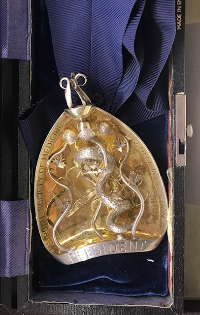 Presidents Medal